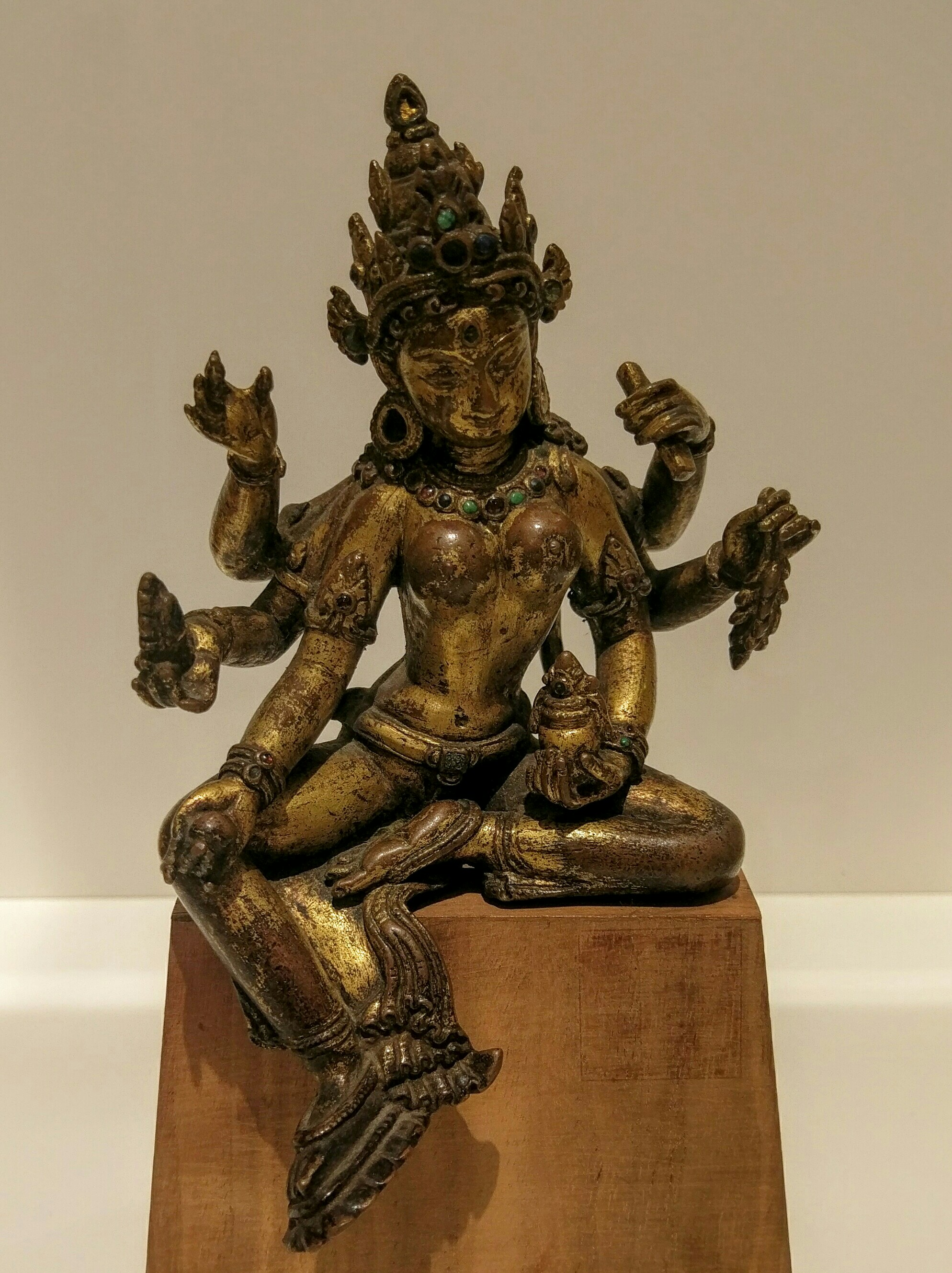 A gilt bronze Vasudhara from Nepal, 12th century, at the Crocker Art Museum. Photo by Jim Heaphy.